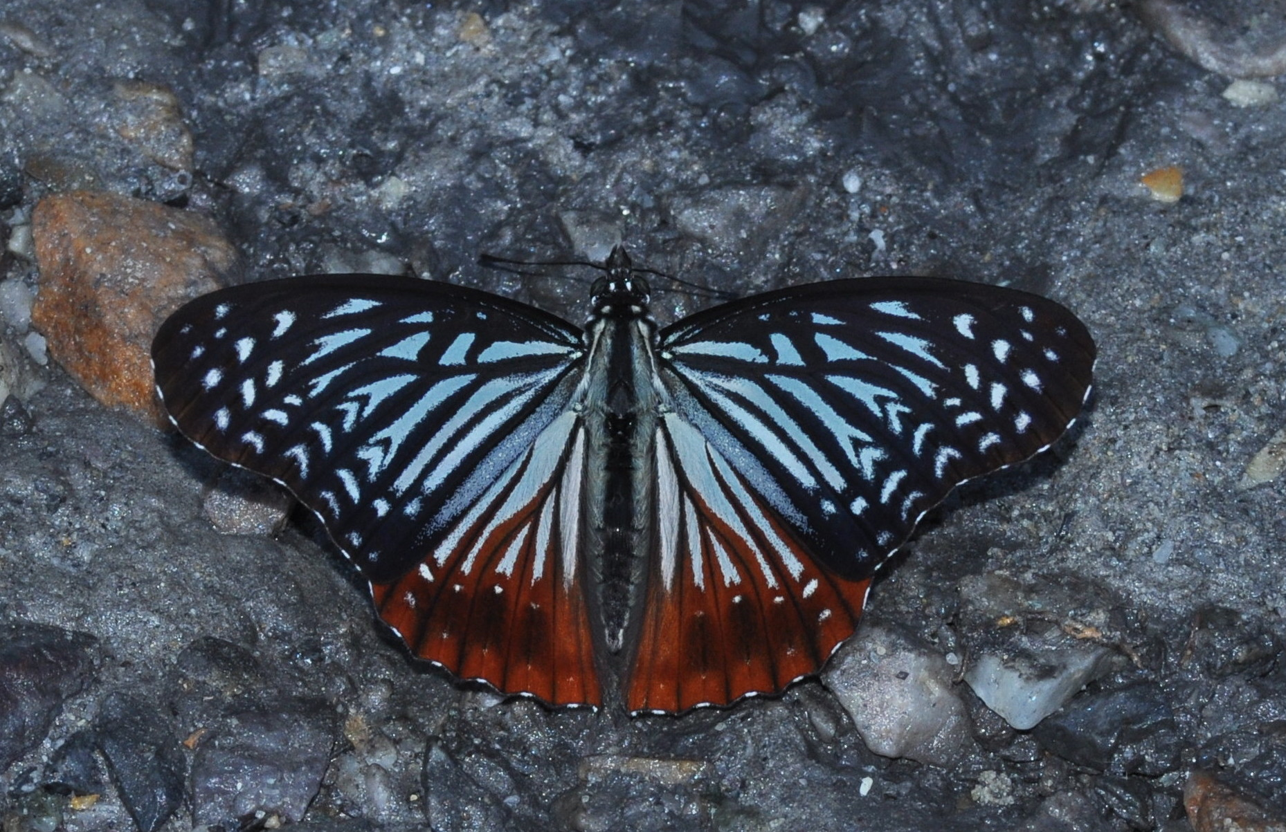 This image was taken in the project Wiki Loves Butterfly. Open wing of Hestinalis nama Doubleday, 1844 – Circe